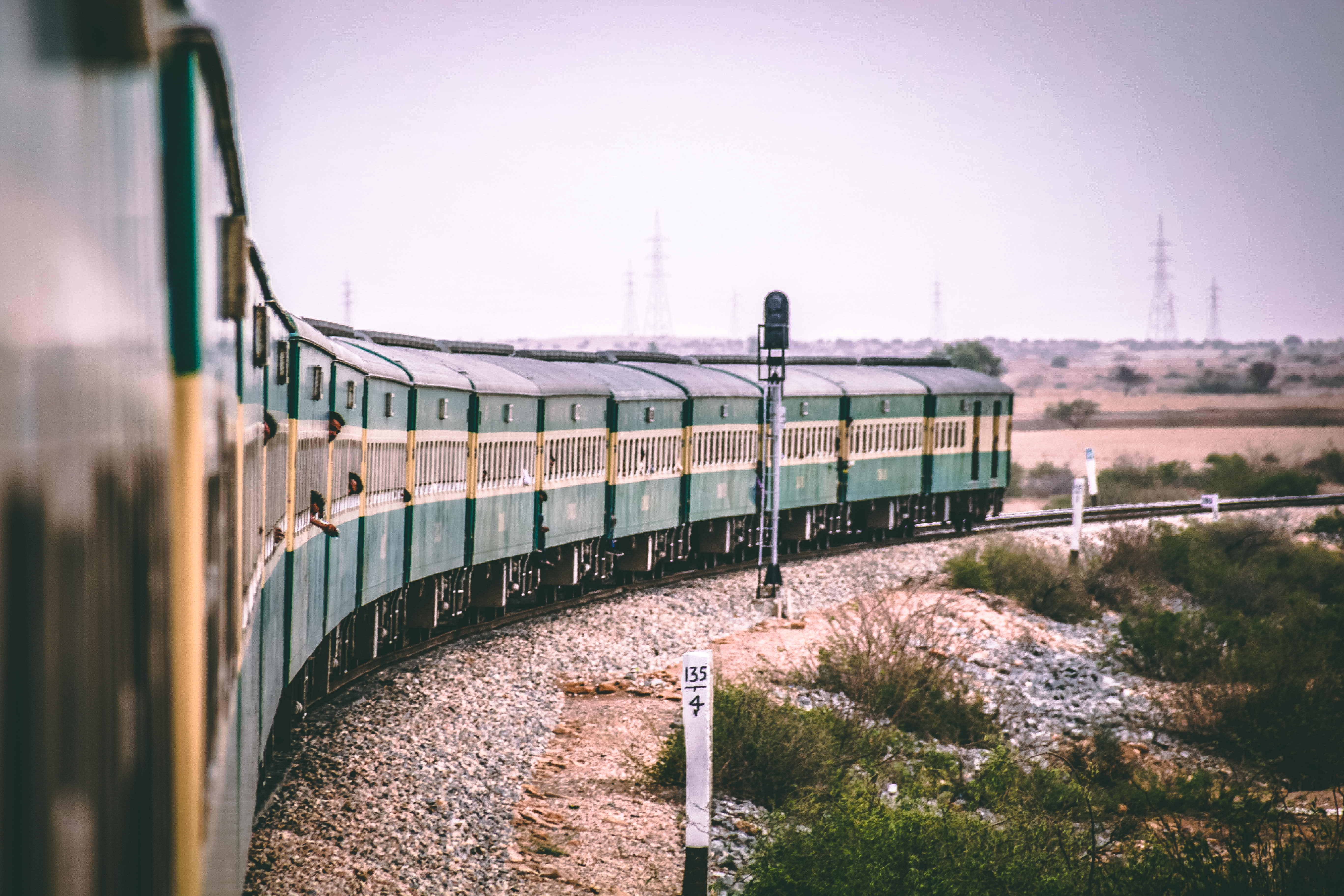 train track pakistan